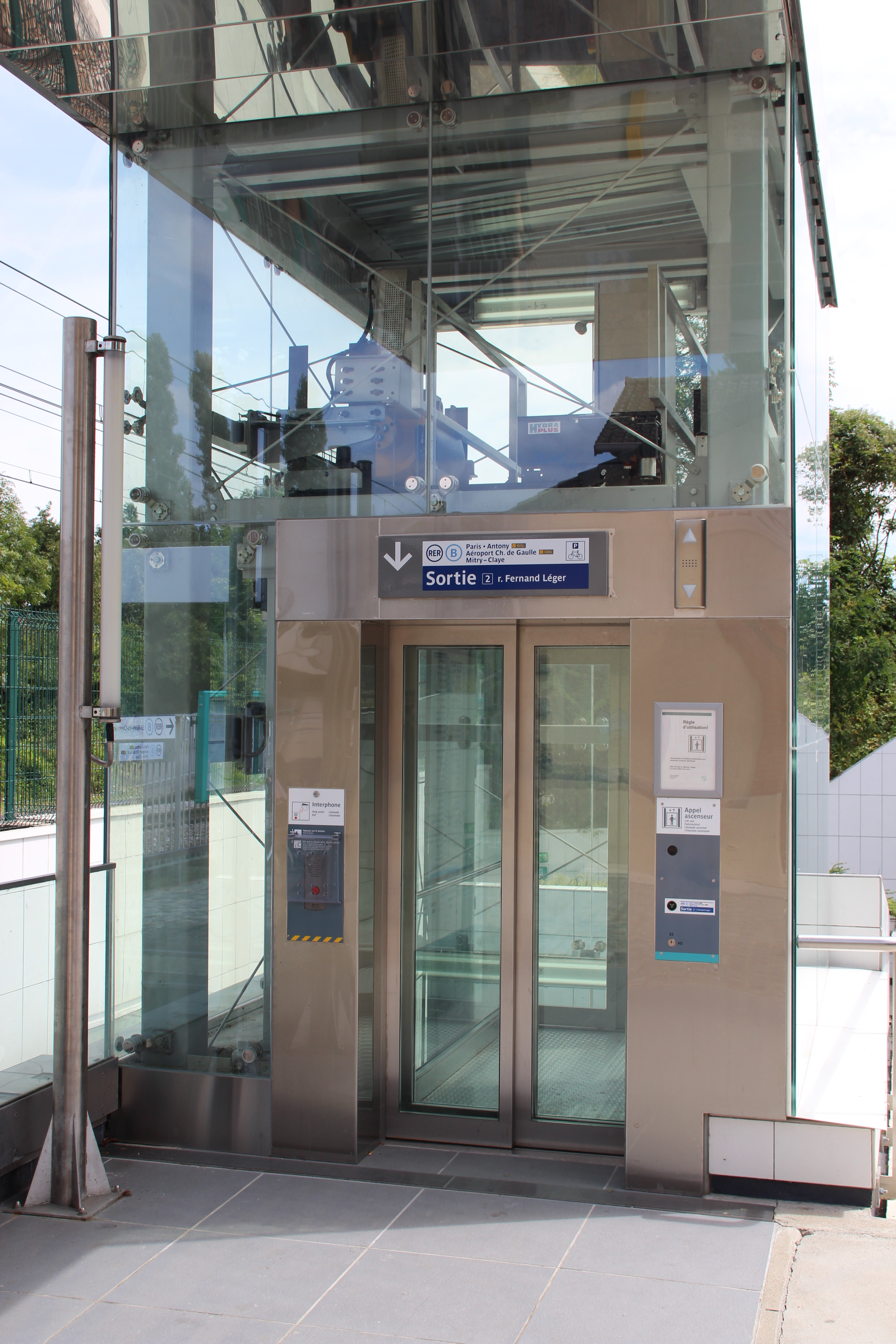 Gare de Courcelle-sur-Yvette in France.